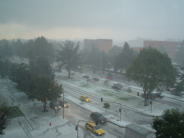 Hailstorm Location: Bogotá, D.C., Colombia Date: March 3, 2006